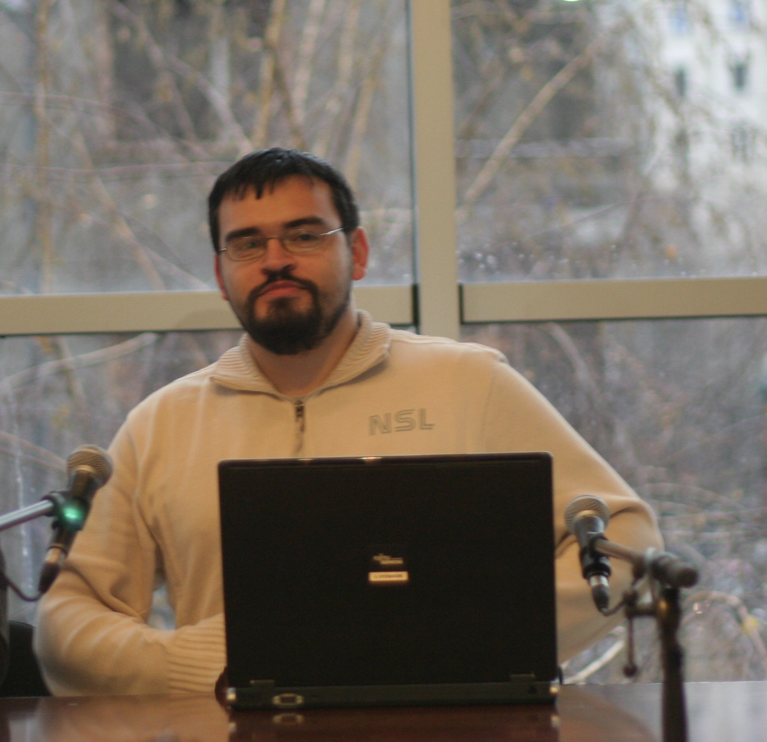 Image taken at the Third regional conference of Wikimedia Serbia in Belgrade, 19-21 December 2008